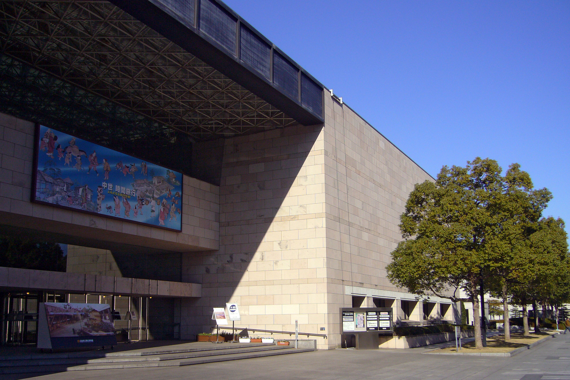 Hiroshima Prefectural Museum of History in Fukuyama, Hiroshima prefecture, Japan